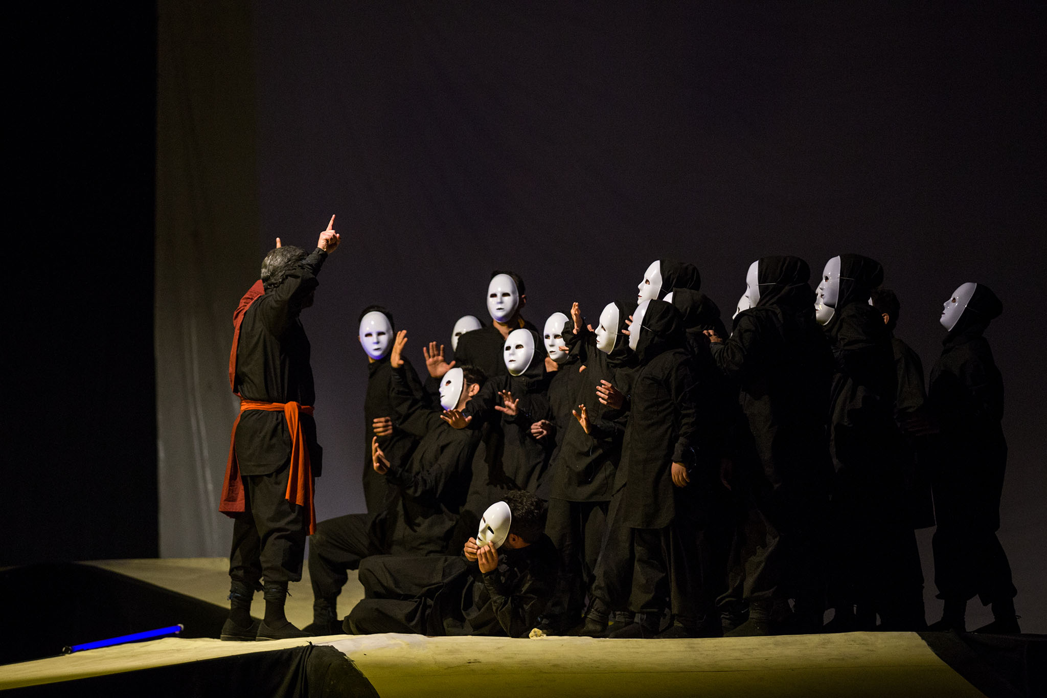 Theatre or theater is a collaborative form of fine art that uses live performers, typically actors or actresses, to present the experience of a real or imagined event before a live audience in a specific place, often a stage. Photographer: Mostafa Meraji location: Iran- Qom City Director: Seyyed Javad Taheri Actor or actress